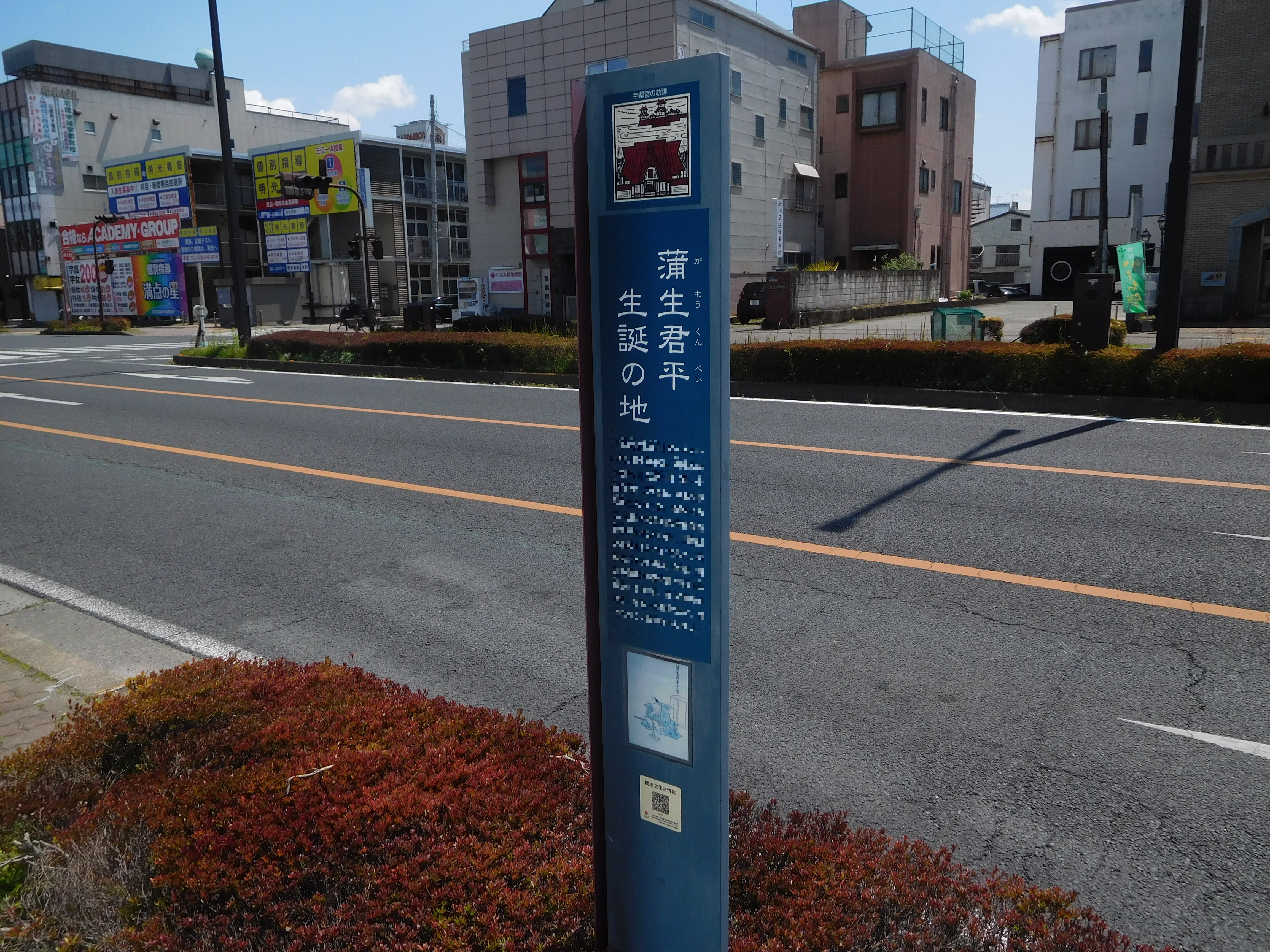 This is the birthplace of GAMO Kumpei, a confucianist.It is in front of Utsunomiya-Obata post office, Utsunomiya, Tochigi, Japan. To protect copyrights, I pixelized texts on the board.